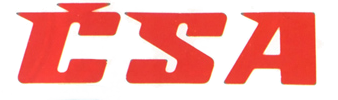 Former logo of the Czechoslovak Airlines